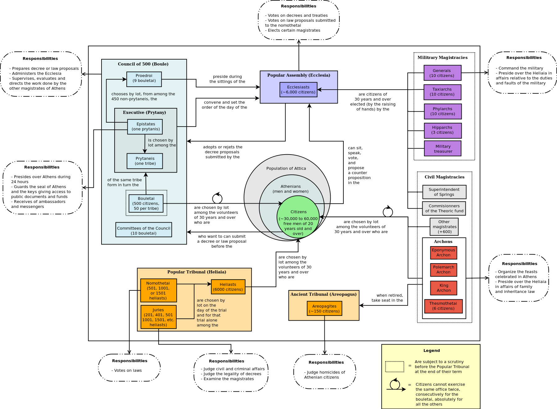 Diagram representing the constitution of the Athenians in the IVth century BC.